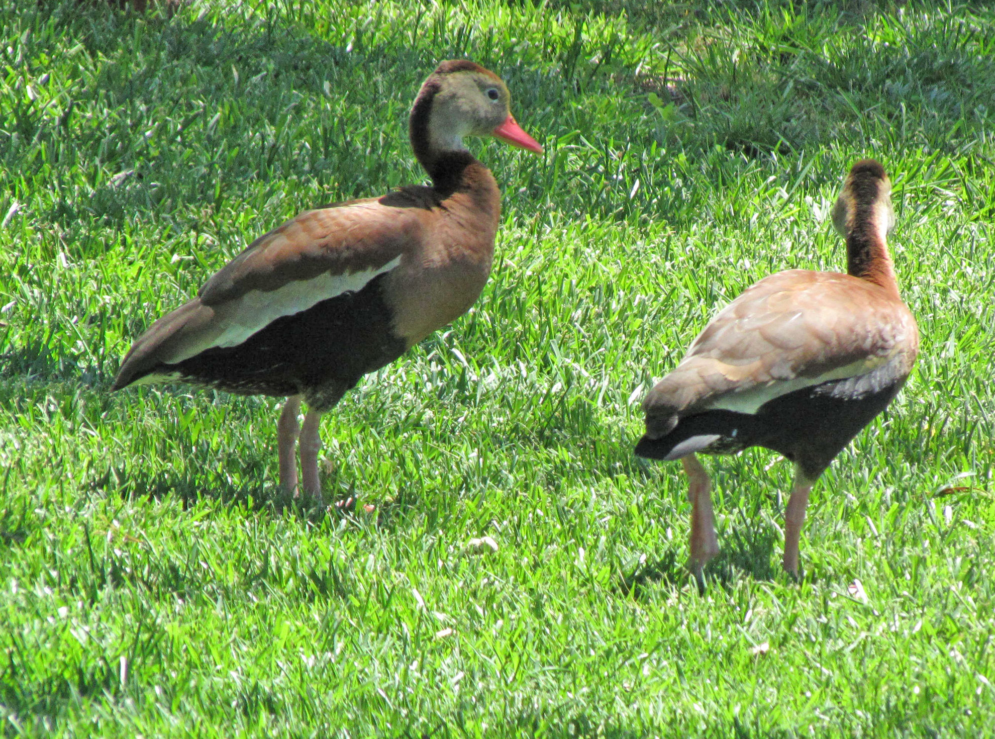 Black-bellied Whistling Ducks in Clark Gardens Botanical Park, Weatherford, Texas, USA.